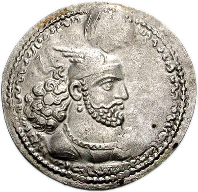 Coin of Bahram II.